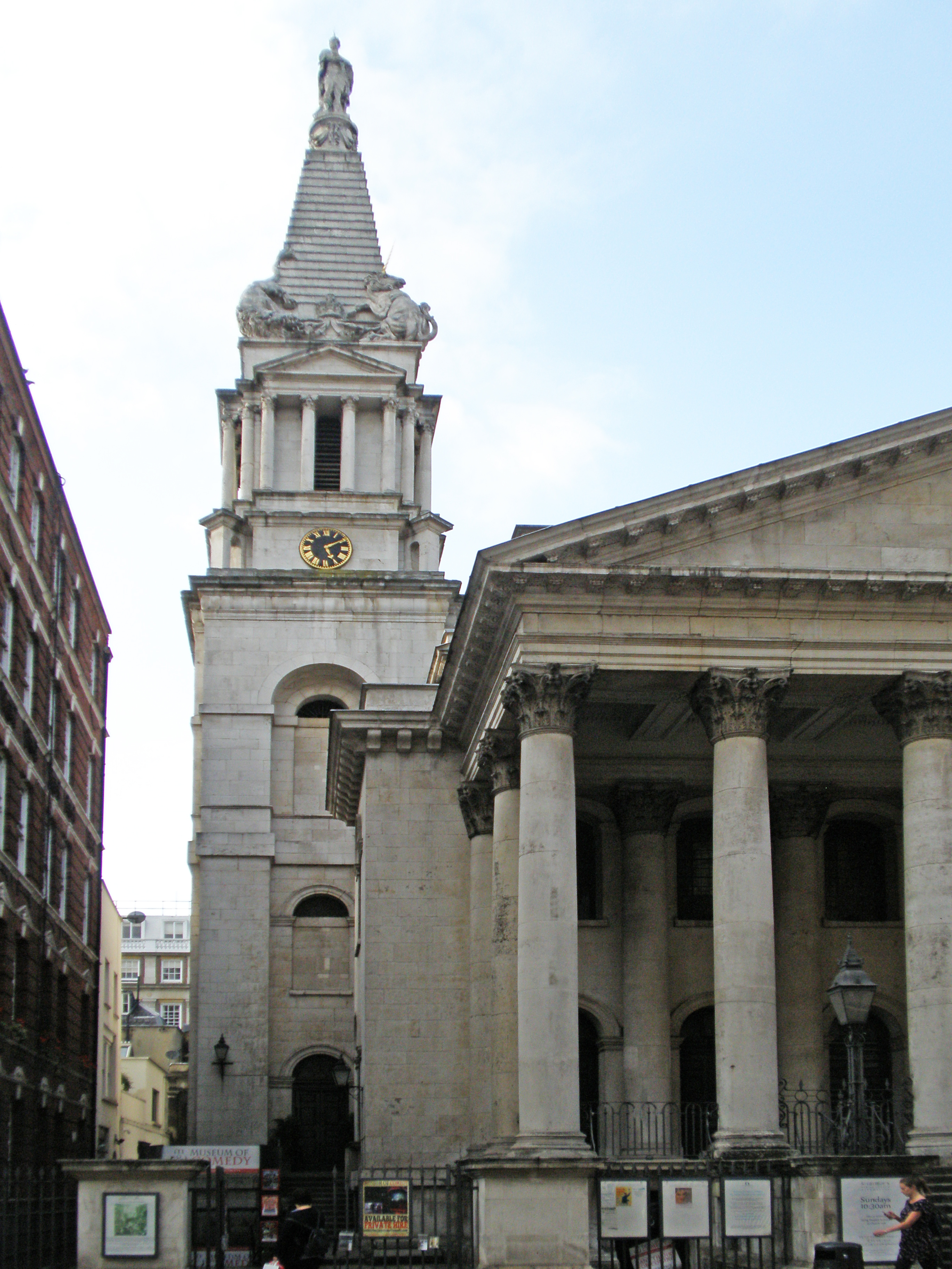 The Commissioners for the Fifty New Churches Act of 1711 realised that, due to rapid development in the Bloomsbury area during the latter part of the 17th and early part of the 18th centuries, the area (then part of the parish of St Giles in the Fields) needed to be split off and given a parish church of its own. They appointed Nicholas Hawksmoor, a pupil and former assistant of Sir Christopher Wren, to design and build this church, which he then did between 1716 and 1731. This was the sixth and last, of his London churches. St George's was consecrated on 28 January 1730 by Edmund Gibson, Bishop of London. The stepped tower is influenced by Pliny the Elder's description of the Mausoleum at Halicarnassus, and topped with a statue of King George I in Roman dress. Its statues of fighting lions and unicorns symbolise the recent end of the First Jacobite Rising. The Portico is based on that of the Temple of Bacchus in Baalbek, Lebanon. The tower is depicted in William Hogarth's well-known engraving "Gin Lane" (1751). Charles Dickens used St George's as the setting for "The Bloomsbury Christening" in Sketches by Boz. The statue of George I was humorously described by Horace Walpole in a rhyme: “ When Henry VIII left the Pope in the lurch, The Protestants made him the head of the church, But George's good subjects, the Bloomsbury people Instead of the church, made him head of the steeple. ” Hawksmoor, who worked with Wren and Vanburgh, has been 'rediscovered' in recent years. His style is innovative and eclectic. Some have portrayed his churches as centres of gloom and mystery, full of occult and morbid energies and pagan symbols, linked to ancient lay lines and to murders in Whitechapel and on the notorious Ratcliffe Highway (which now links the City and Canary Wharf).